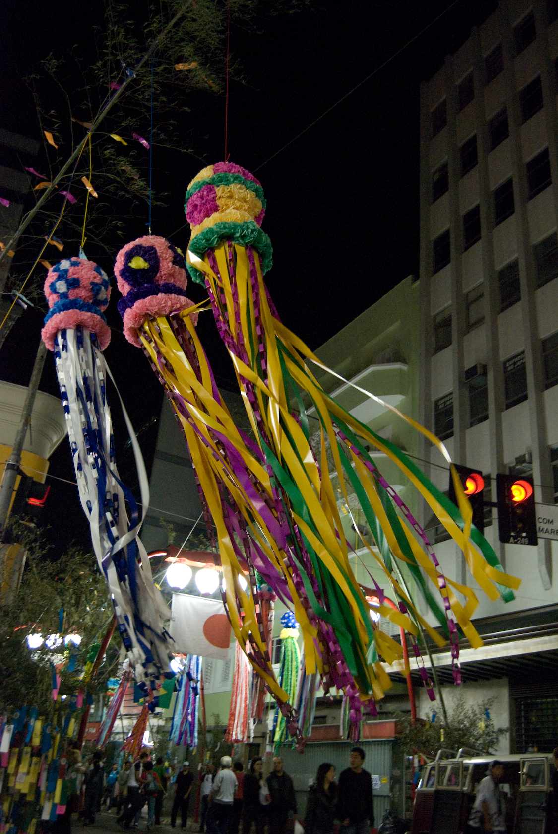 Tanabata in Brazil